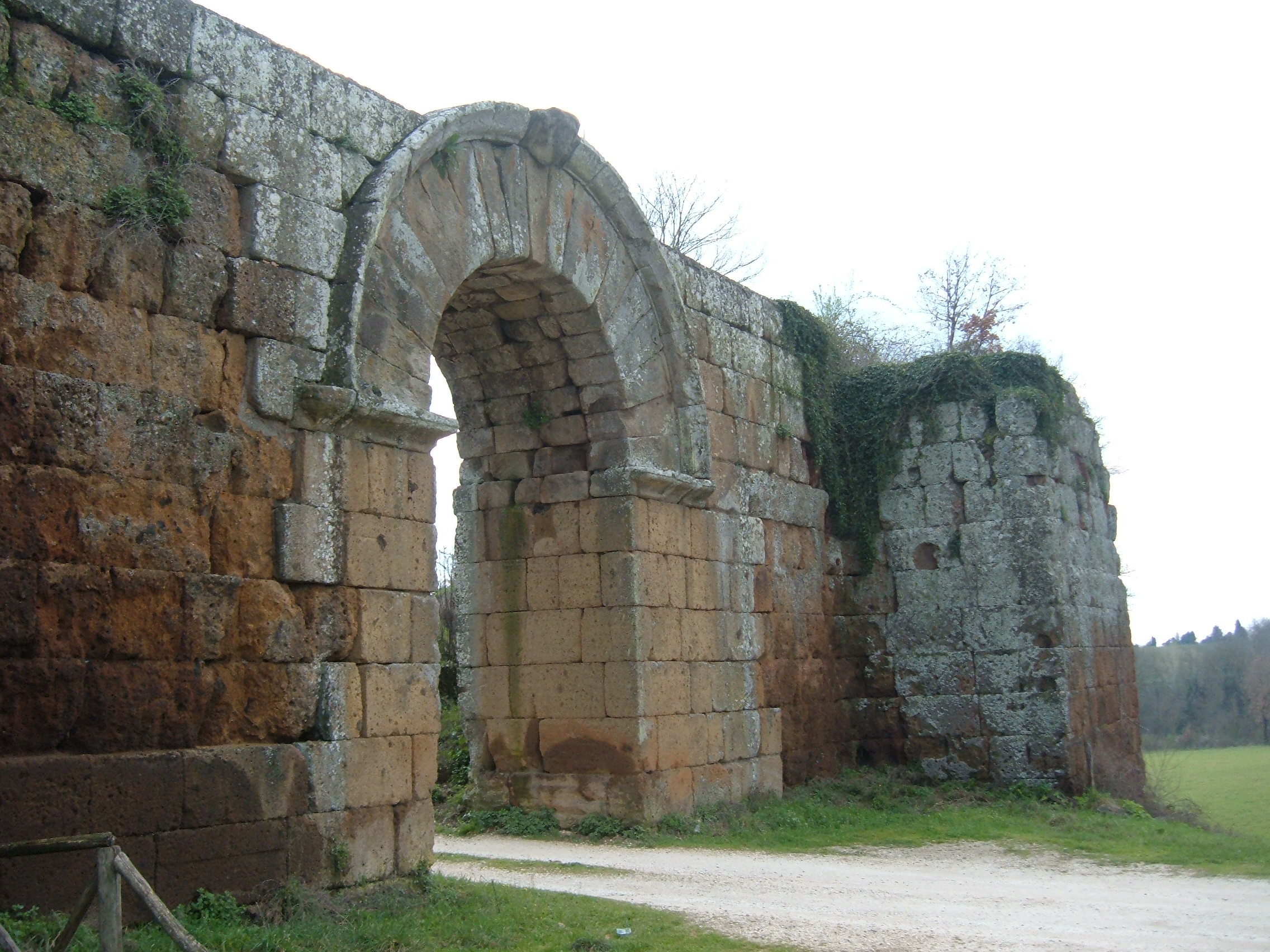 External side of Porta di Giove (Falerii Novi)